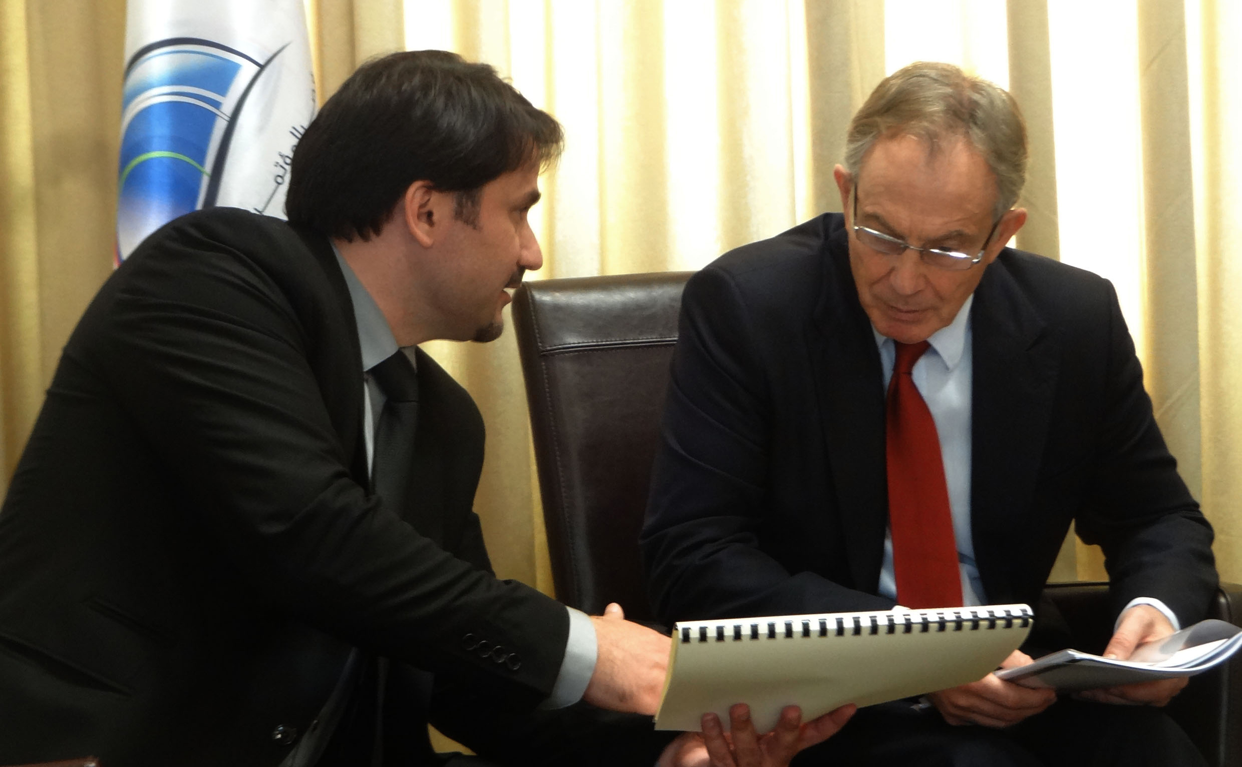 Mr. Blair with Mr. George Bassous (General Manager of the Convention Palace) prior to meeting with Minister of Tourism Rula Ma’ayah